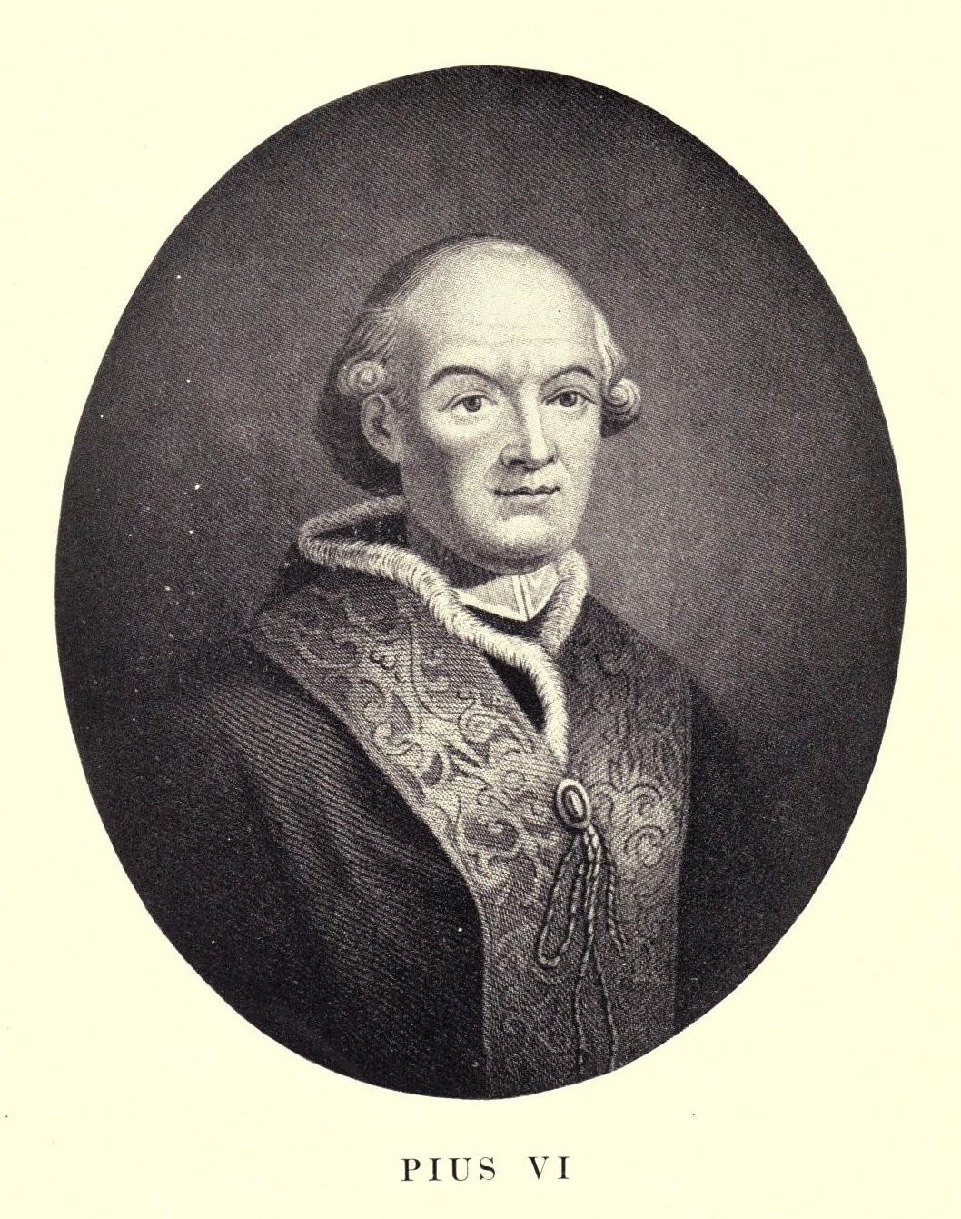 This illustration is from The Lives and Times of the Popes by Chevalier Artaud de Montor, New York: The Catholic Publication Society of America, 1911. It was originally published in 1842.